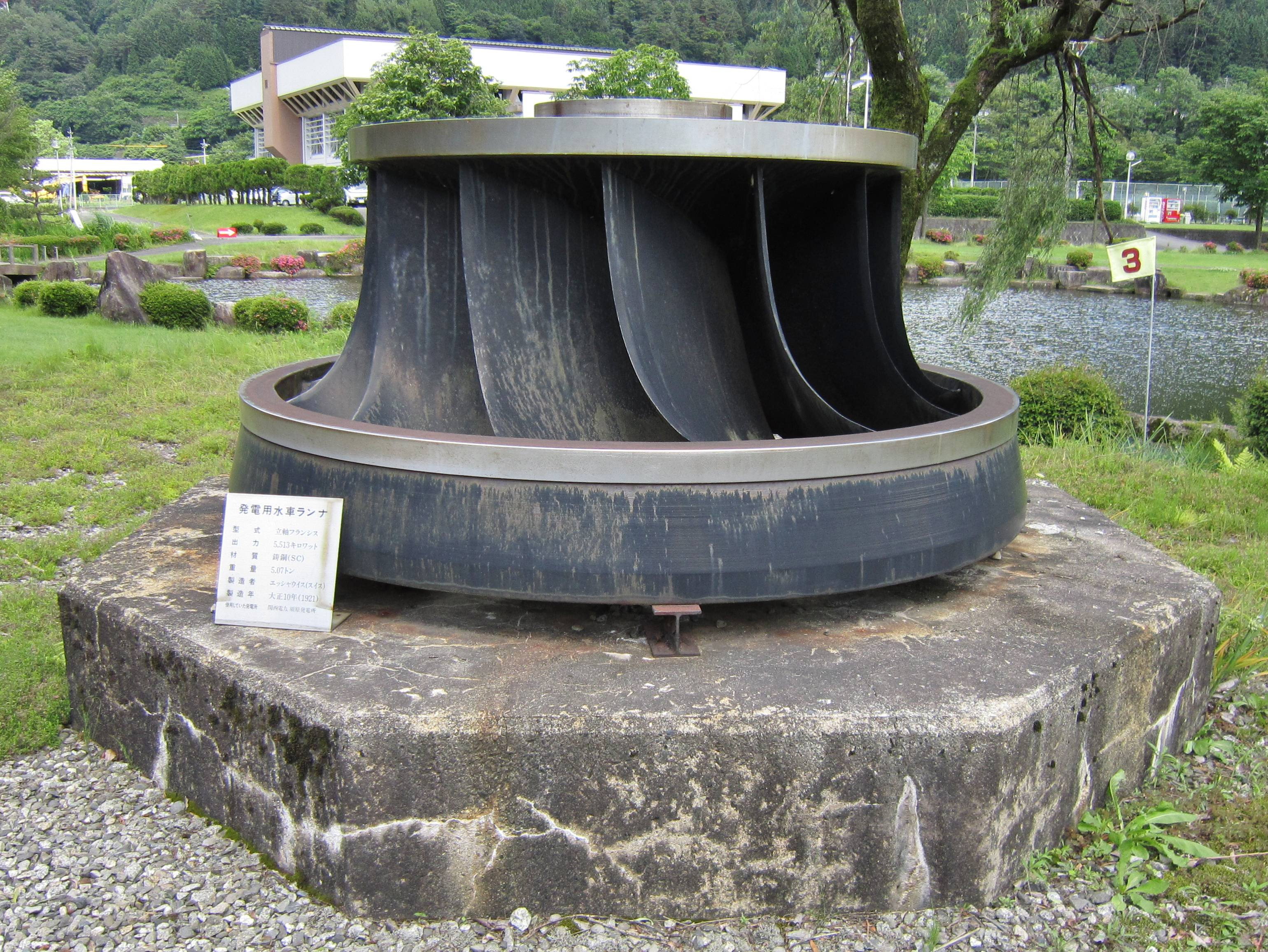 Okuwa village sport park Suhara hydroelectric power station Escher Wyss Francis turbine (P = 5.513 MW, year = 1921).